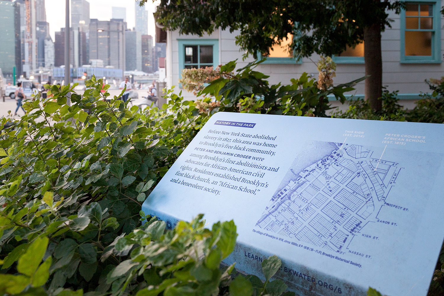 In 2014, the Brooklyn Historical Society created a series of signs marking points of historic significance throughout Brooklyn Bridge Park.[1] This sign reads, "Before New York State abolished slavery in 1827, this area was home to Brooklyn’s free black community. Peter and Benjamin Croger were among Brooklyn’s first abolitionists and advocated for African-American civil rights. Residents established Brooklyn’s first black church, an 'African School,' and a benevolent society." (Photo gallery of DUMBO, Brooklyn)